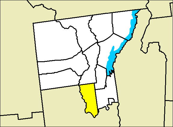 Map of Warren County, New York with town of Lake Luzerne highlighted.